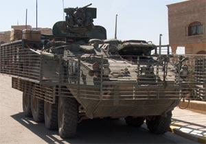 Infantry Fighting Variant Stryker with a Remote Weapons System .50 Caliber machine gun I took in Iraq.